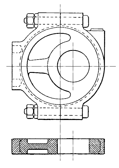 Eccentric and sheave (Heat Engines, 1913).png